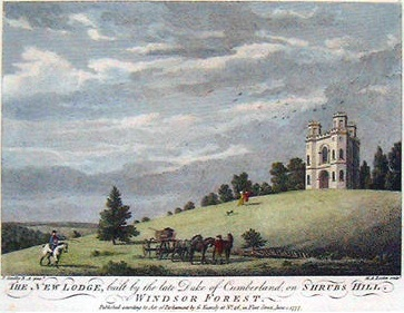 "The New Lodge built by the late Duke of Cumberland on Shrubs Hill, Windsor Forest". Engraving of "Shrubs Hill Tower", built by Prince William, Duke of Cumberland (1721–1765), "Butcher Cumberland" a younger son of King George II, later called "Fort Belvedere"